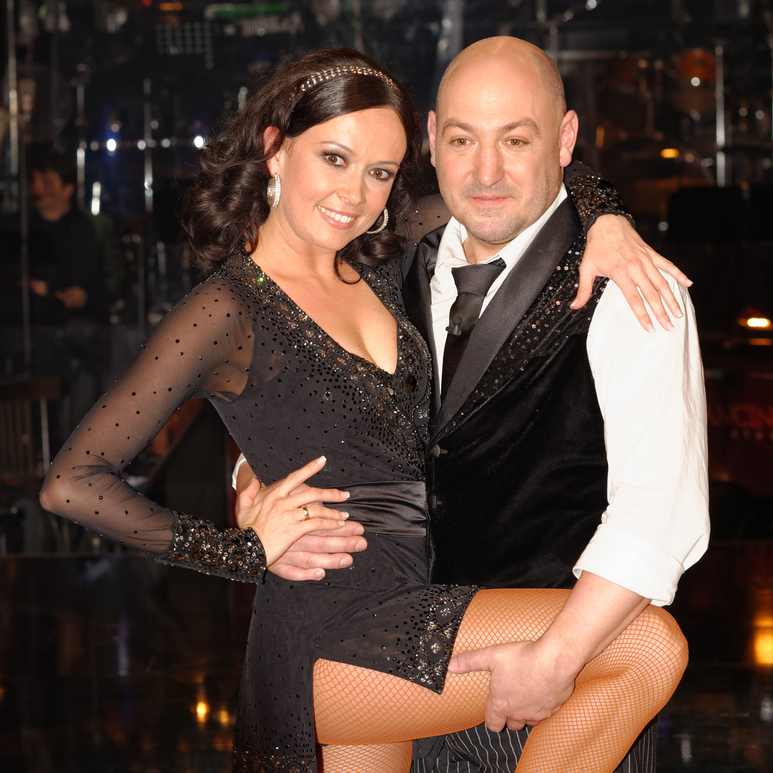 "Dancing Stars" am 5. April 2013 The making of this work was supported by Wikimedia Austria. For other files made with the support of Wikimedia Austria, please see the category Supported by Wikimedia Österreich. Rudolf Roubinek und Babsi Koitz-Baumann